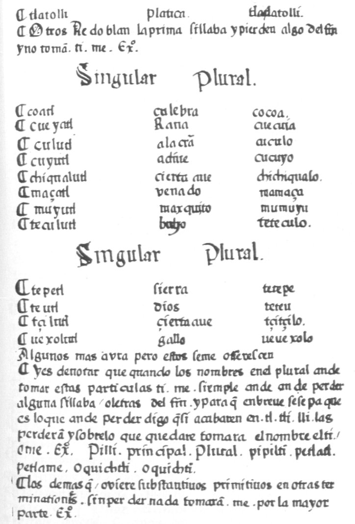 This is scanned from León-Portilla & León-Portilla's (2002) facsimile edition of Olmos' 1547 grammar. The original is obviously public-domain. I scanned it myself.